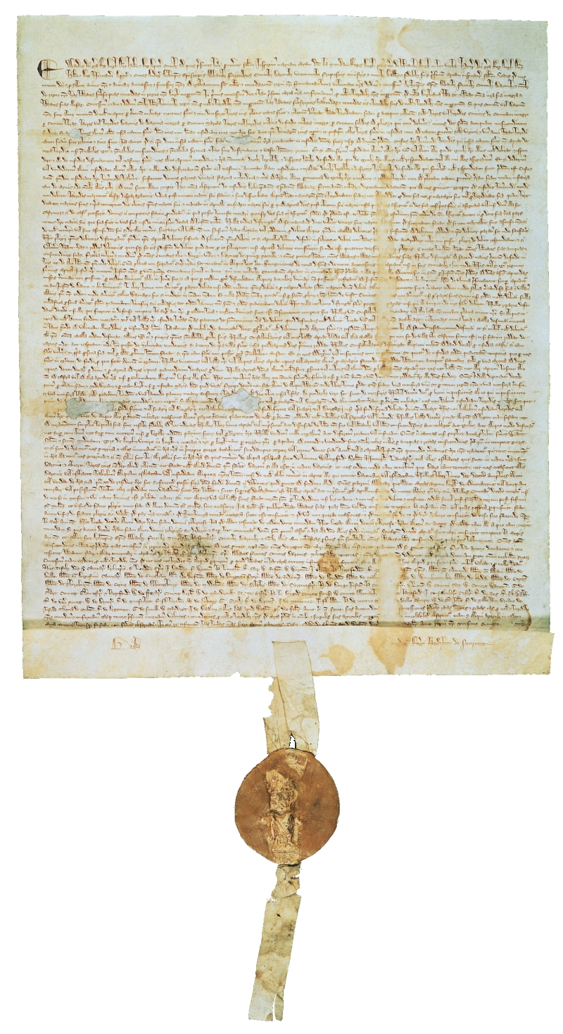 The 1297 version of Magna Carta, one of four originals of the document. This copy was formerly owned by the Brudenell family and the Earls of Cardigan, and later the Perot Foundation. David Mark Rubenstein, co-founder and Managing Director of The Carlyle Group, acquired the document in 2007 and loaned it to the National Archives and Records Administration. It is now on public display in the West Rotunda Gallery of the National Archives Building in Washington, D.C., USA. For further information, see [1].